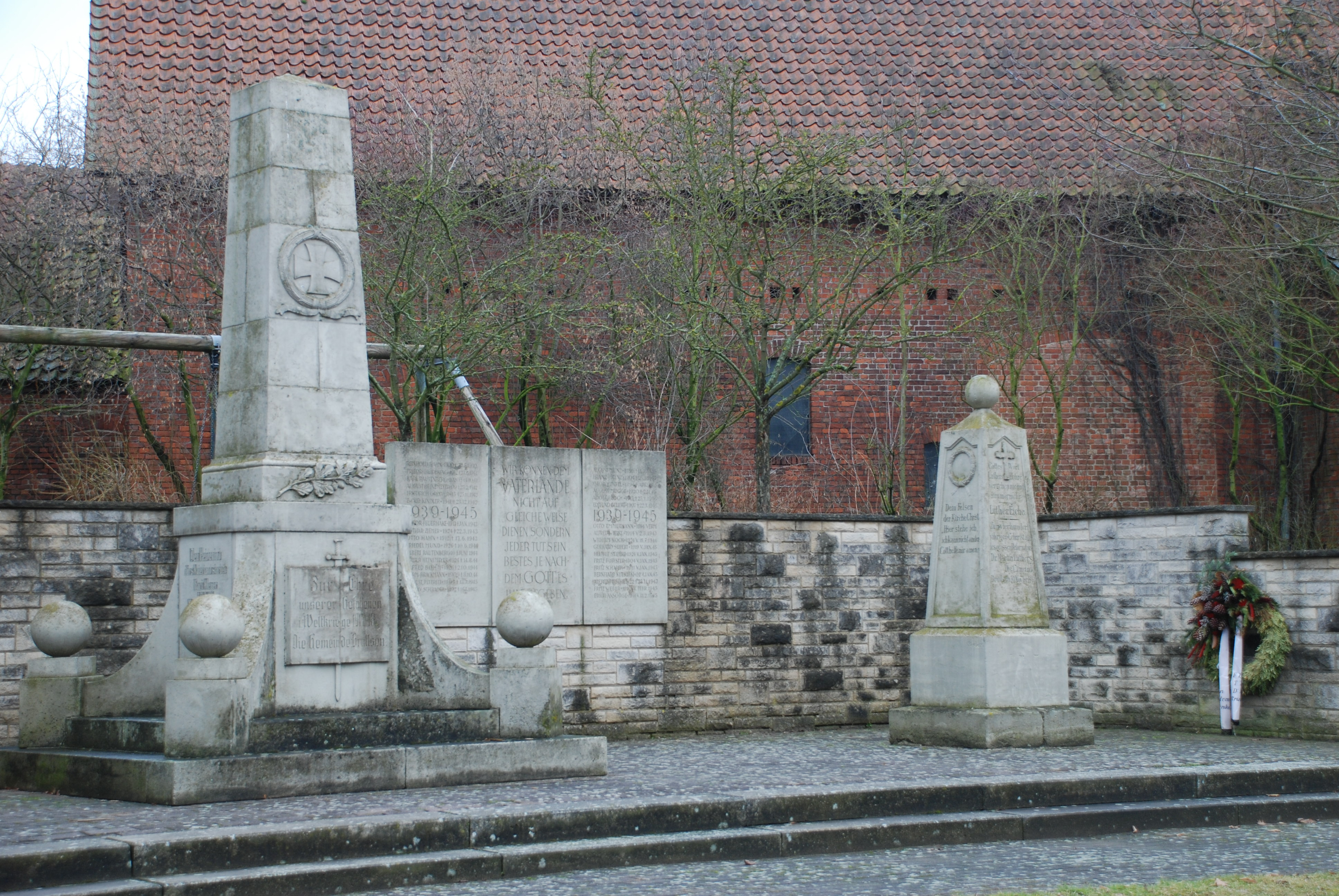 Memorials in Brullsen, Lower Saxony, Germany (World War I, World War II, 4th centennial of Martin Luthers birthday in 1883)